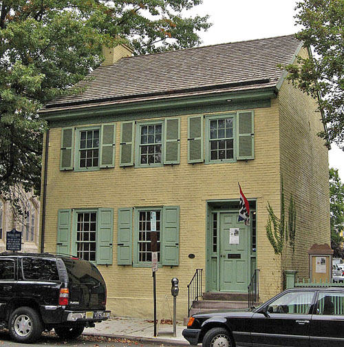 Exterior of the James W. Marshall House — located in Lambertville, New Jersey. In 1816, the Marshall family relocated to Lambertville, where Philip Marshall (father) constructed this house on approximately five acres of land. It was James Marshall's discovery of gold in 1848 at Sutter's Mill that began the California Gold Rush. Original text; Photograph taken by me User:Cholmes75 on October 7, 2006.